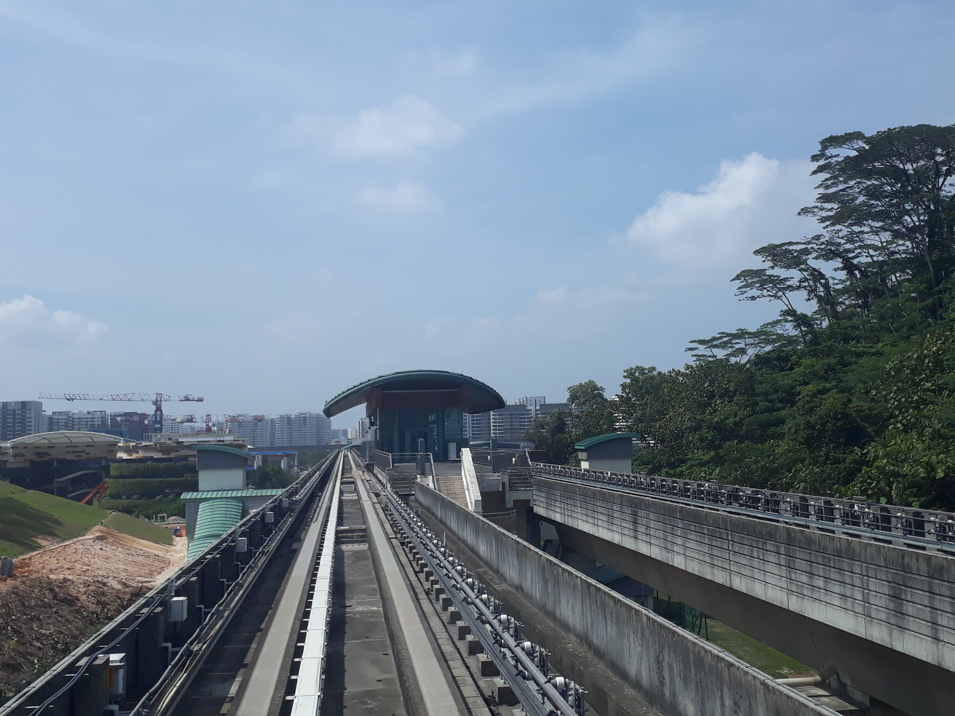 Exterior of Teck Lee station